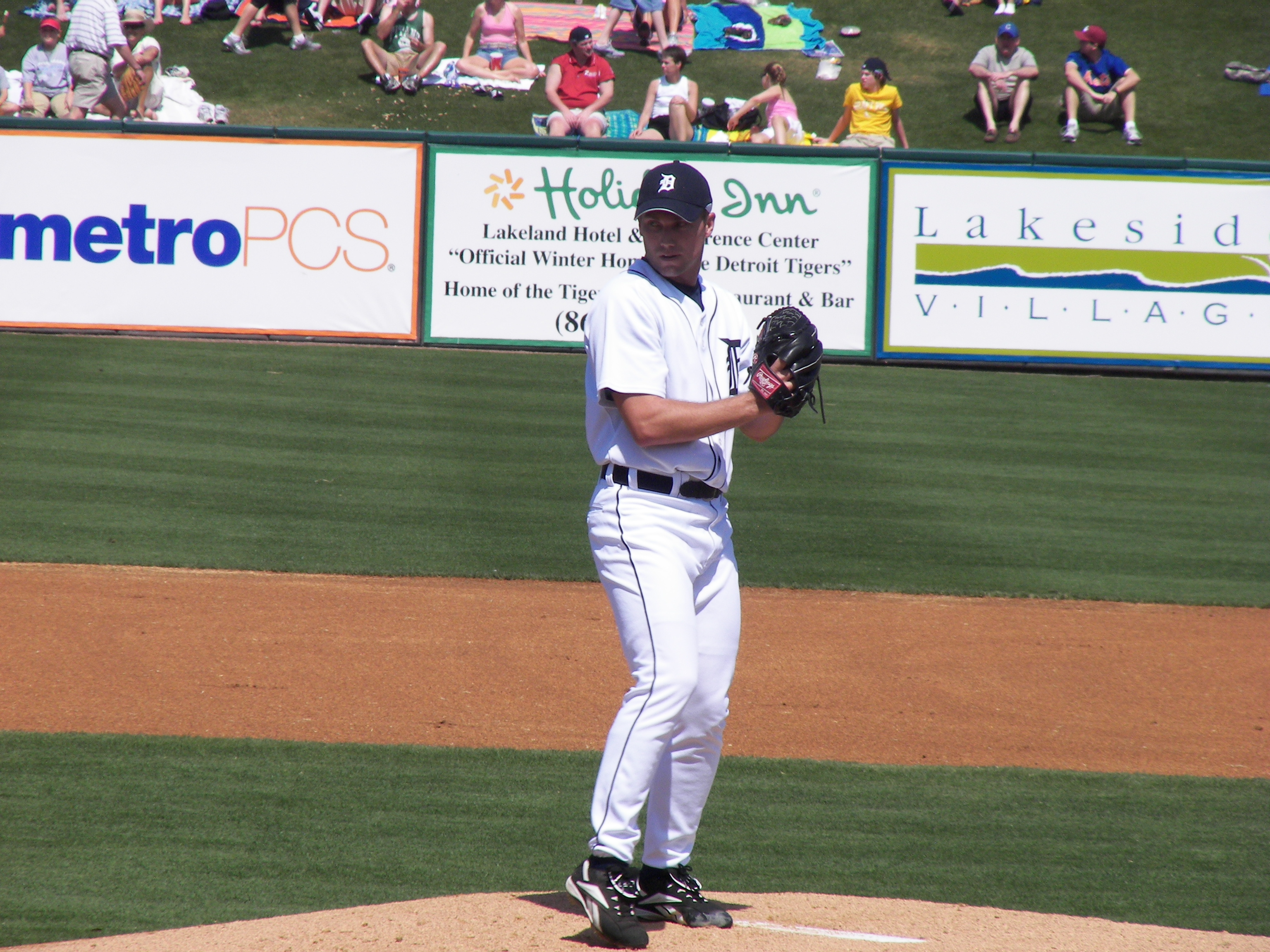 Detroit Tigers pitcher Mike Maroth during a Tigers/New York Mets spring training game at Joker Marchant Stadium in Lakeland, Florida.